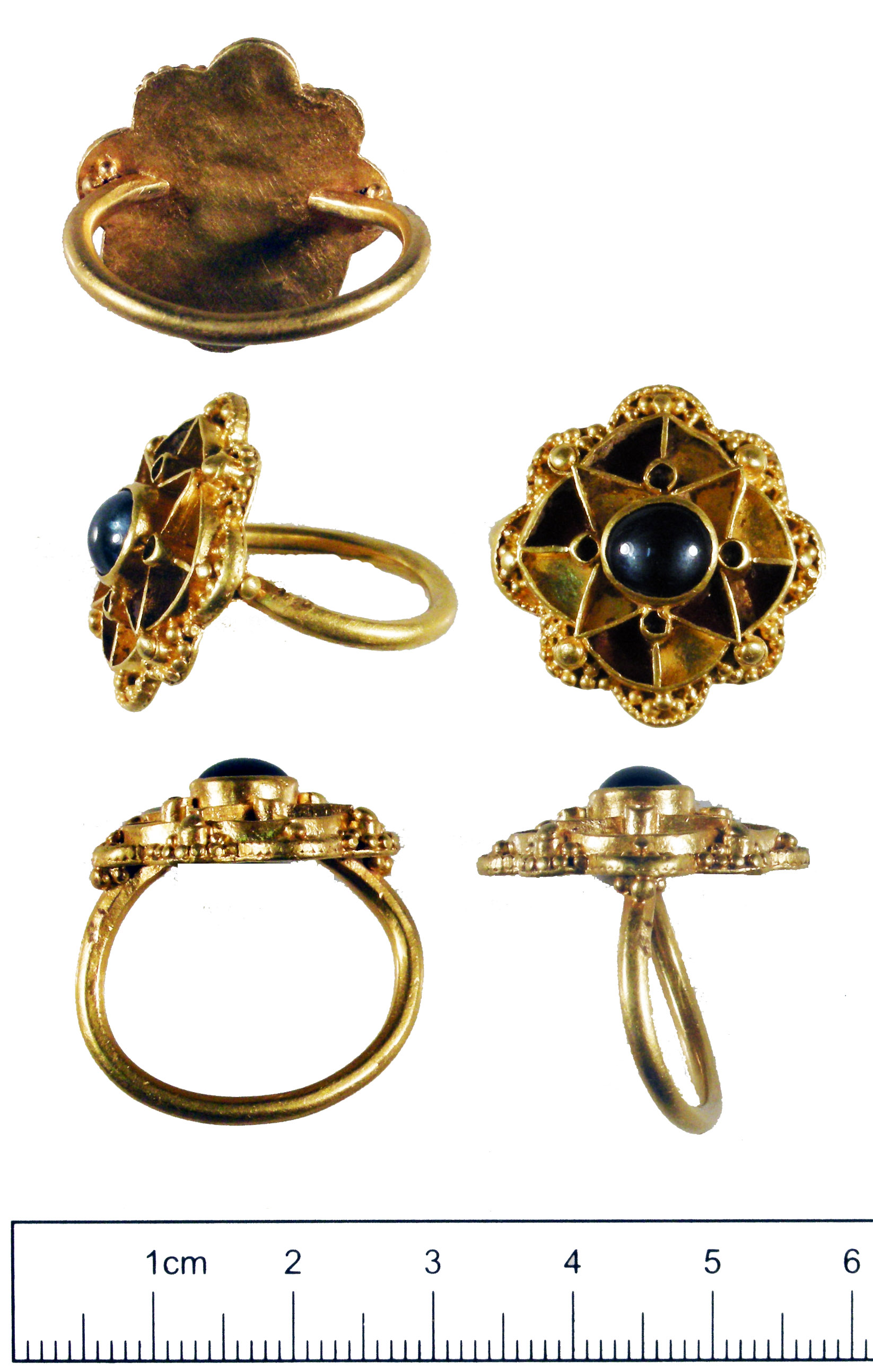 Gold finger ring set with a large blue gemstone and red glass cloisonné. In addition, two separate fragments of garnet, one a splinter, the other one segment-shaped. The central cabochon gem is surrounded by four triangular cells. Where these meet, small round cells have been set. Three of them still contain minute granular inlays, although it is impossible to determine whether they are glass pastes, glass or gem stones. A short, straight cell wall emanates from each roundel and meets the corners of the outer, square frame of the bezel, thus bisecting the space between the triangles. Glass slips are still present in one of the triangular cells and four of the interstitial spaces. The square frame of the bezel is set onto an eight-lobed base. The lobes are alternately embellished by gold granules and by beaded wire enclosing further gold granules. Where this platform meets the round-sectioned hoop, three further gold granules are set. The underside of the lobed platform is plain. The presence of a sapphire is not characteristic for the Anglo-Saxon/Merovingian period and in conjunction with the use of red glass, rather than garnet, for inlay suggests that this ring dates later. Parallels on stone use, granulation and layout make a date perhaps in the late 10th or 11th centuries likely.